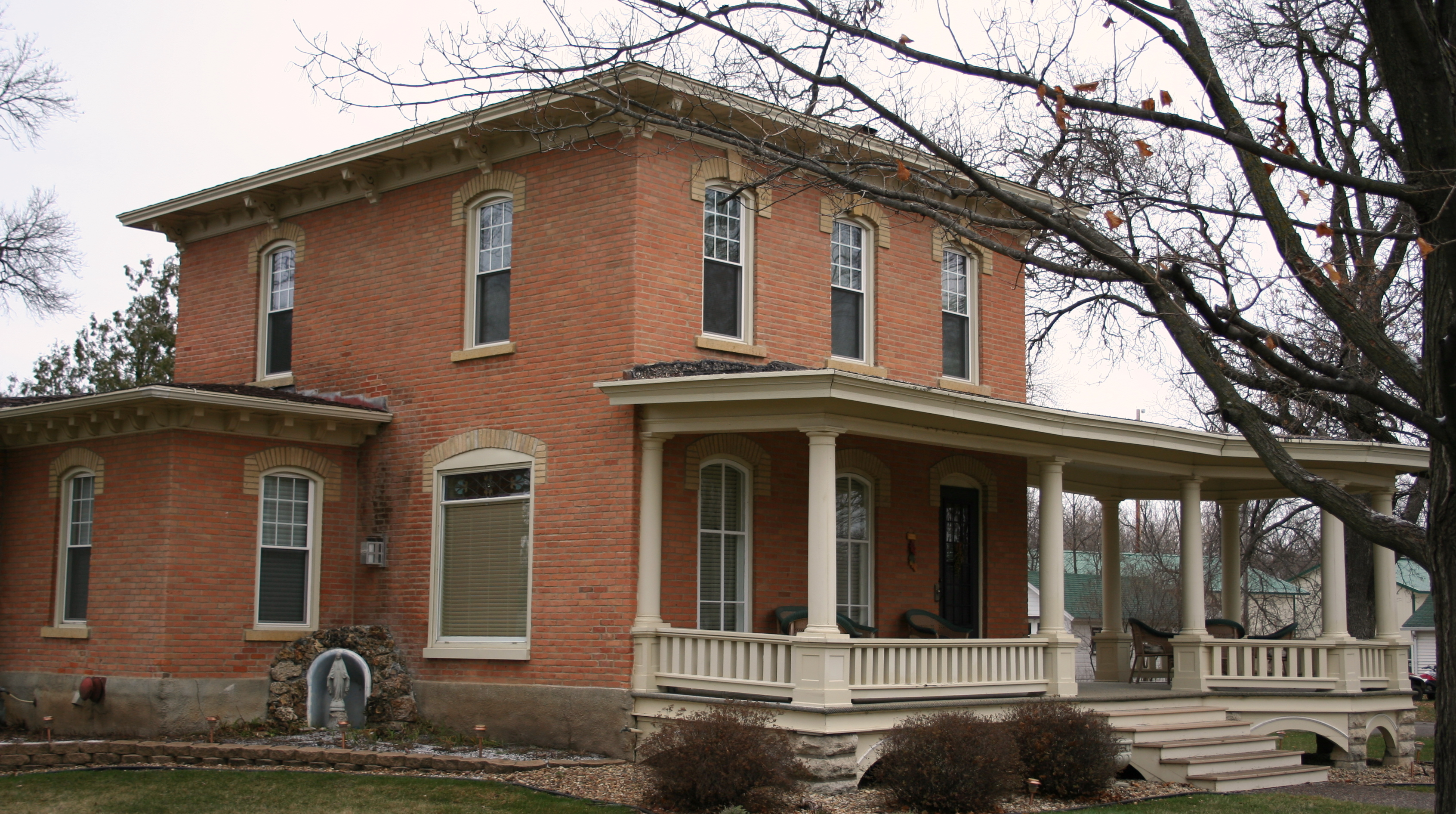 John Bush House at 223 East Center Street in Dover, Olmsted County, Minnesota.